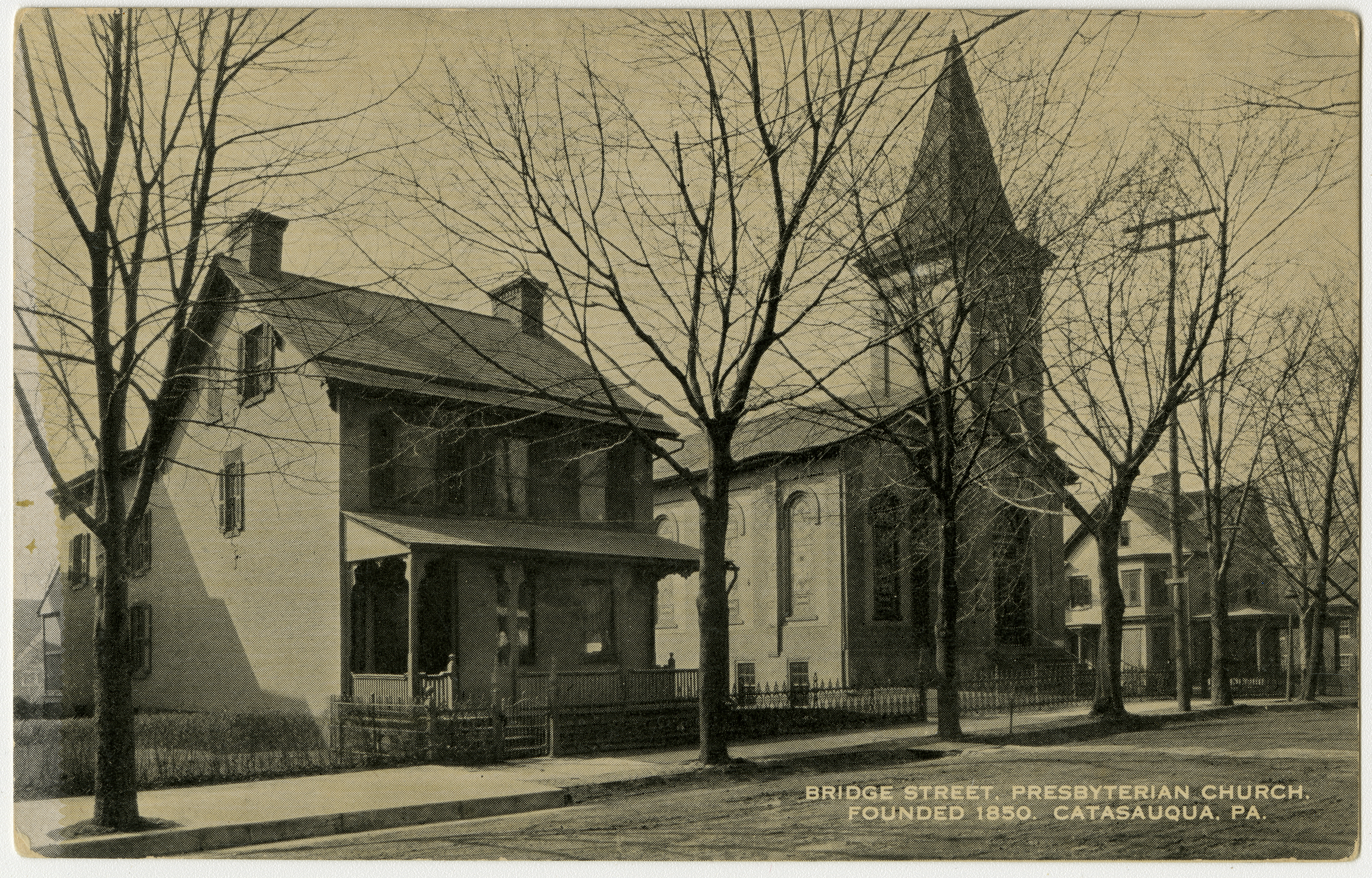 Bridge Street Presbyterian Church in Catasauqua, Pennsylvania on a pre-1923 postcard. From RG 428, Postcard Collection, Presbyterian Historical Society, Philadelphia, Pennsylvania.